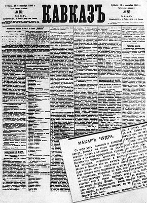 "Makar Chudra", story by Maxim Gorky from "Kavkaz", 1892.